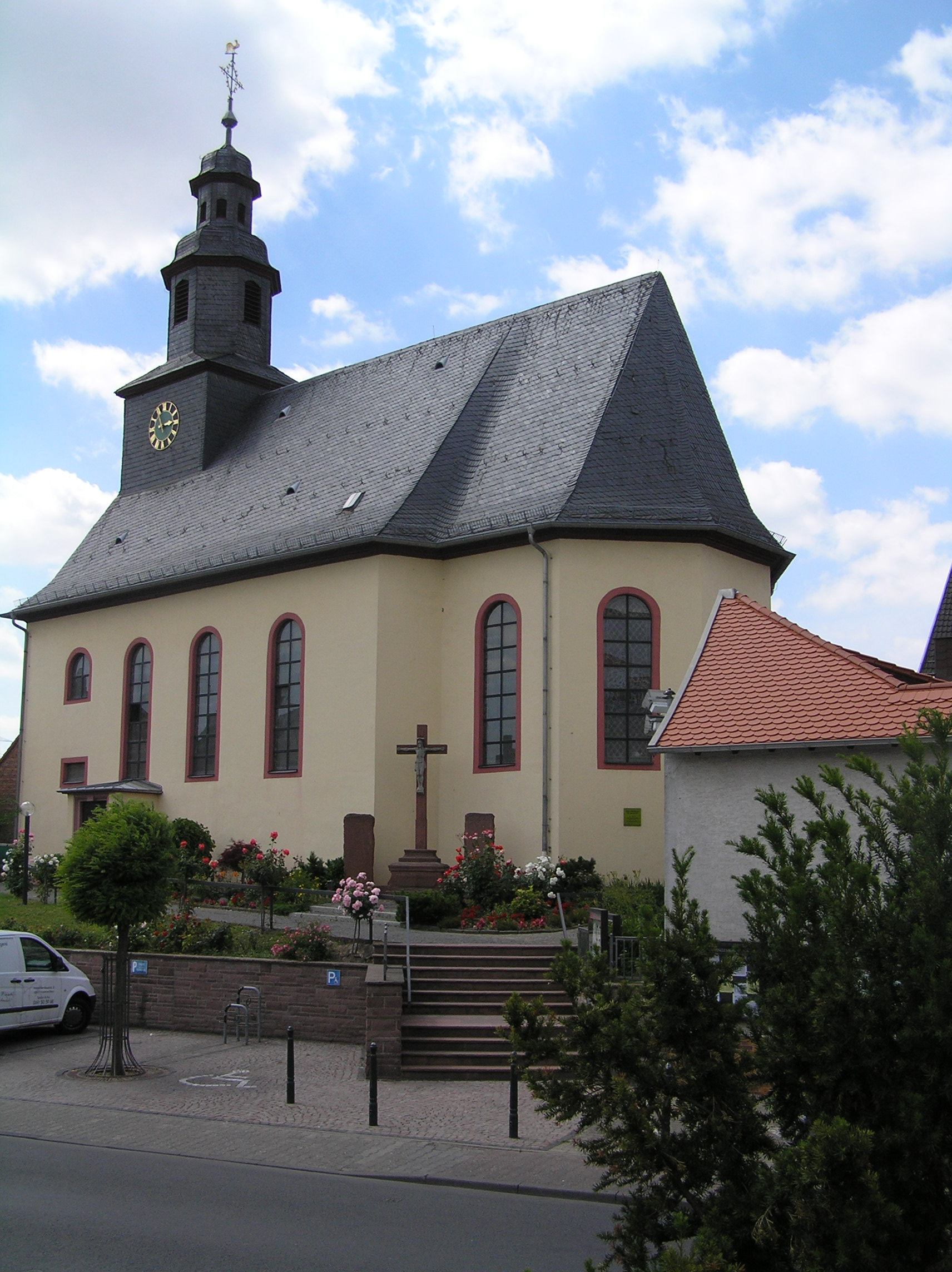 Roman-Catholic St. Laurentius church in Kalbach, Frankfurt am Main, Hesse, Germany, build in the first half of the 18th century